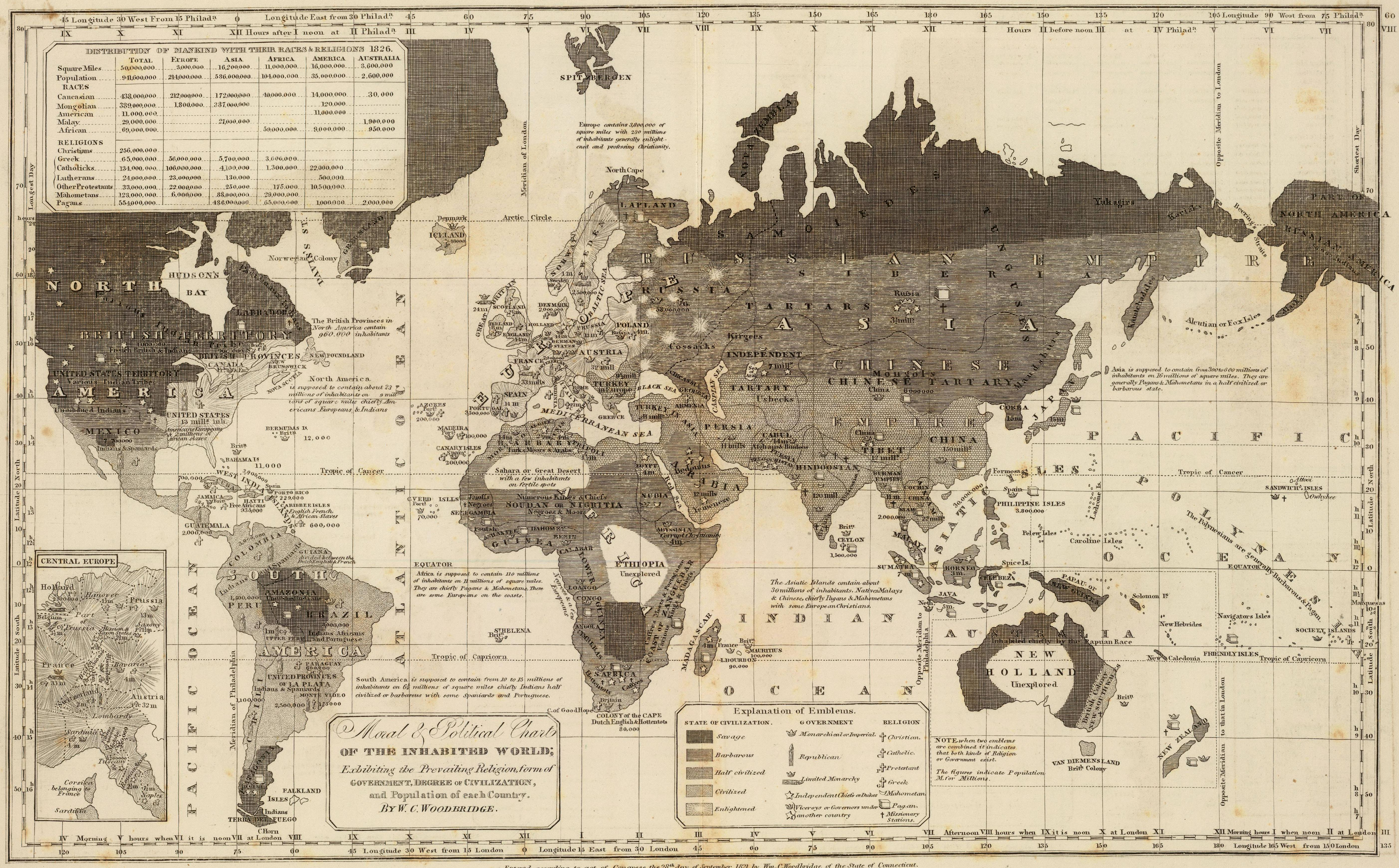 "Entered according to act of Congress the 28th day of Sept. 1821 by Wm. C. Woodbridge of the state of Connecticut."